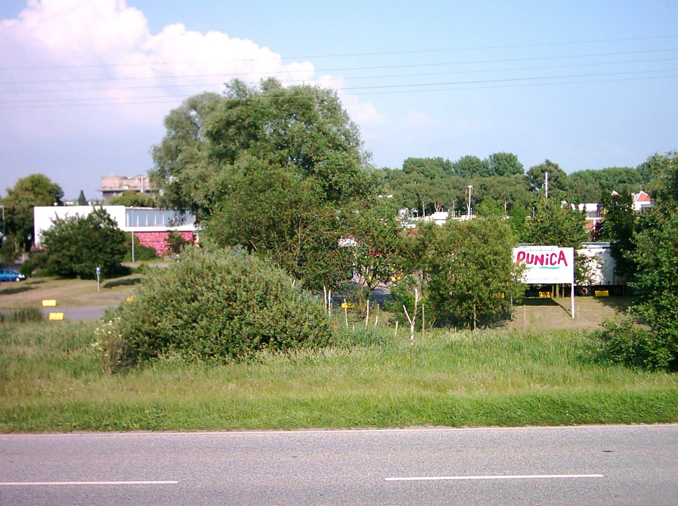 Punica factory in Hamburg, Germany.